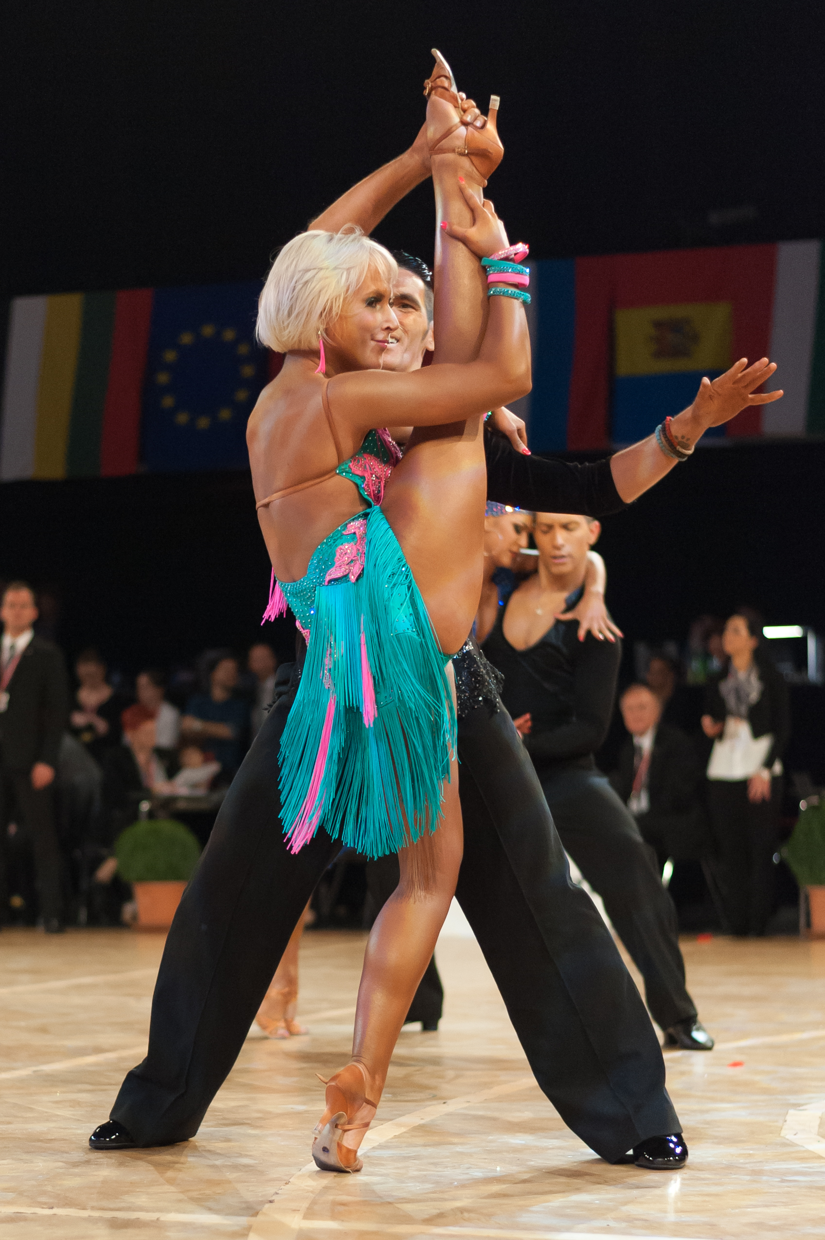 2015 WDSF World DanceSport Championship Latin, 2015-11-21, Schwechat, Lower Austria